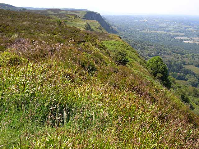 The Cliffs of Magho The stunning escarpment which rises abruptly above the south shore of Lower Lough Erne.